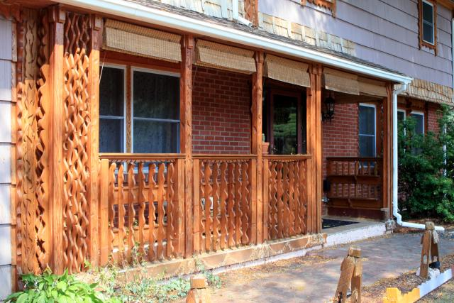 brentwood, no. 24", The office of Fermata Arts Foundation in Avon, Conn. Thomas Tolhurst (author)